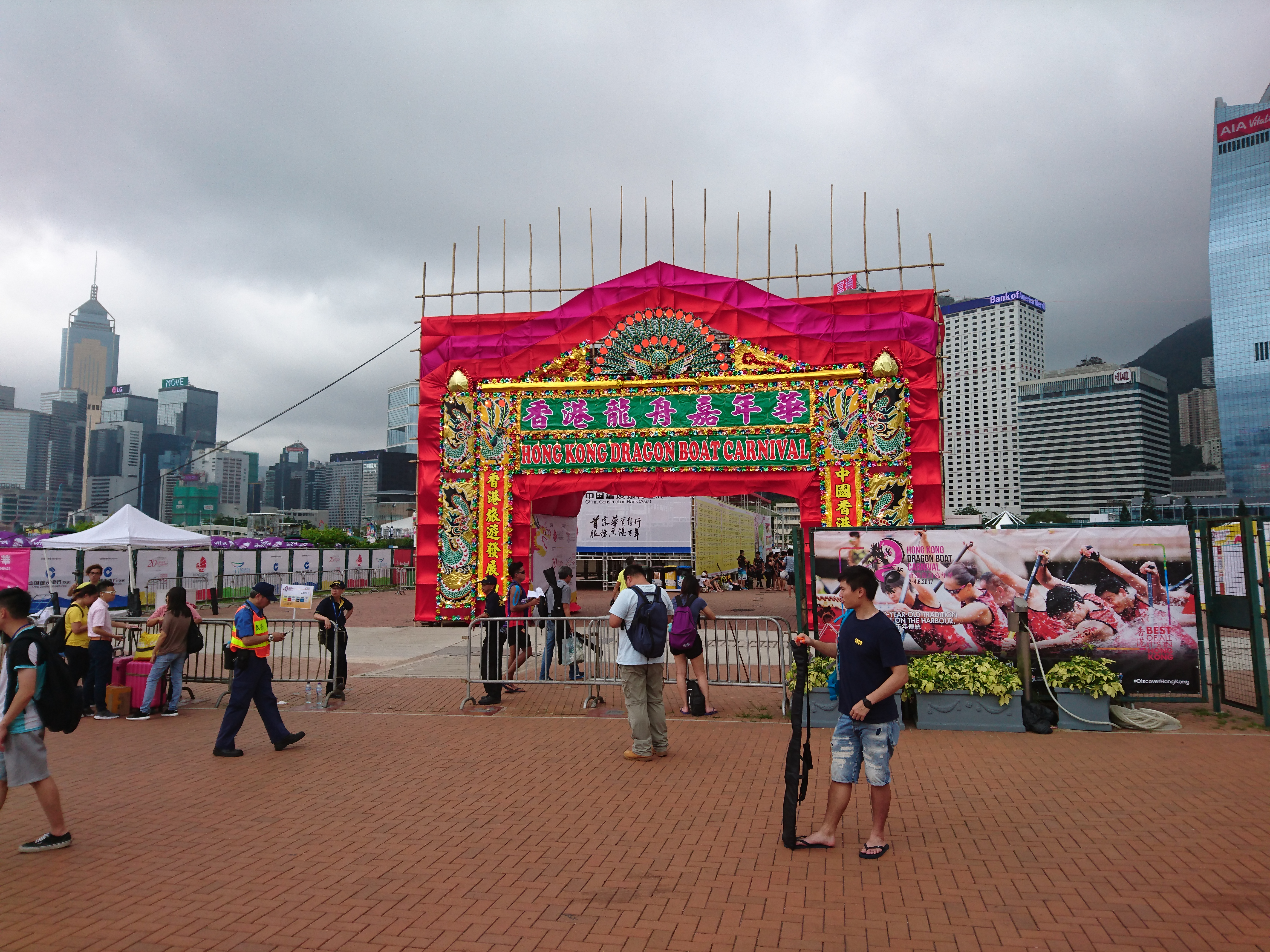 Hong Kong Dragon Boat Carnival Entrance